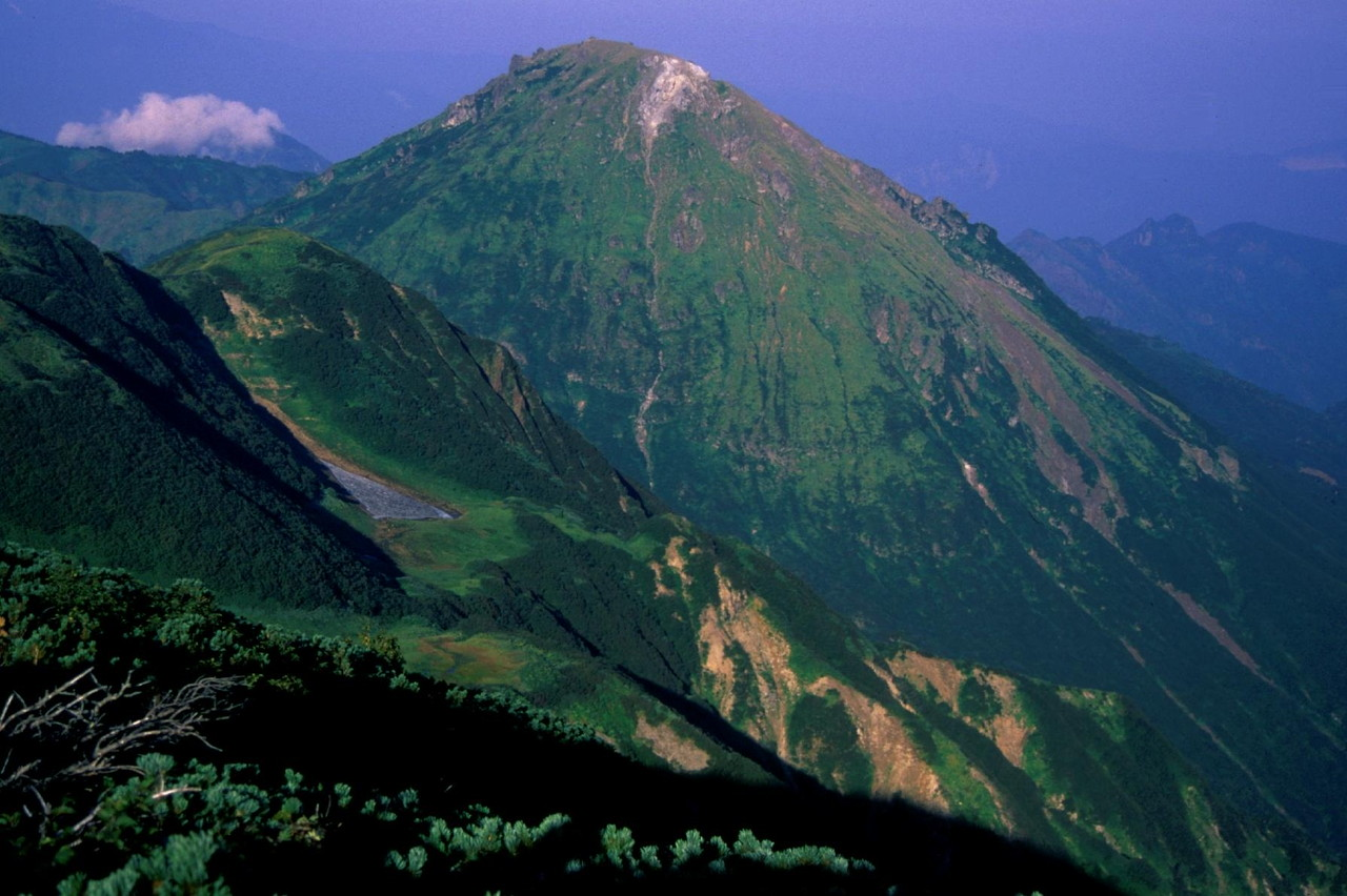 Yakeyama_from_Hiuchidake